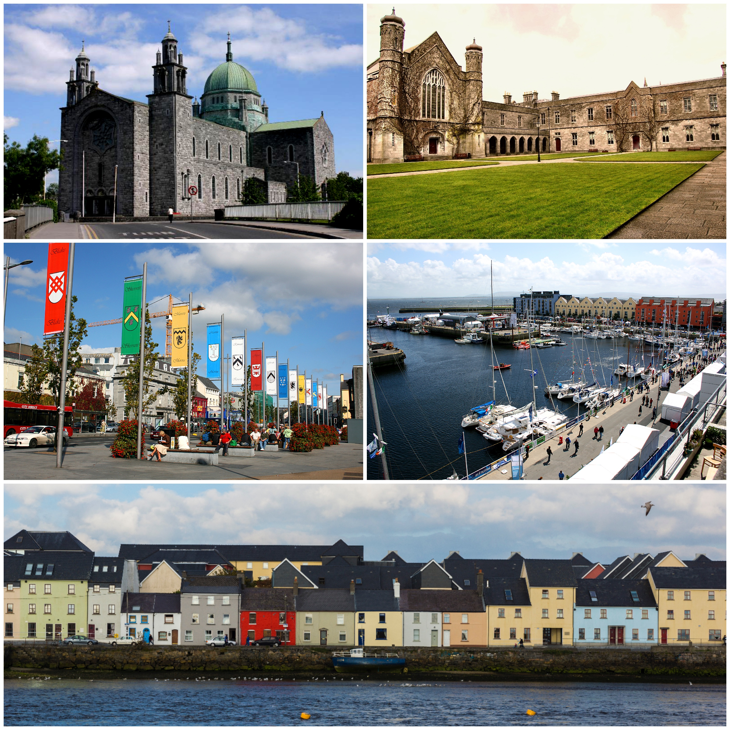 A collage of Galway City, Ireland (Gaillimh, Eire)